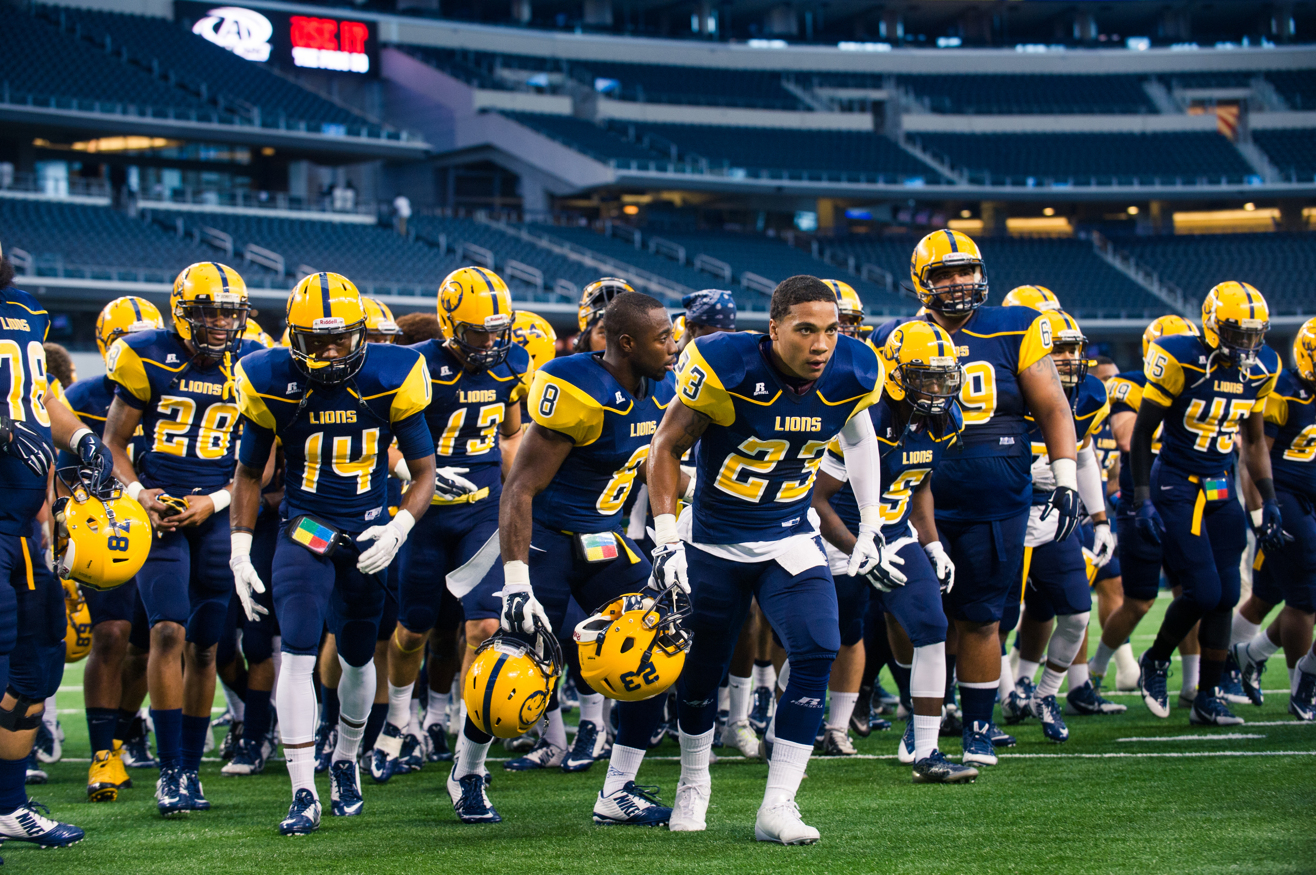 14453-LSC Football Festival-1683.jpg Scenes from the Texas A&M–Kingsville Javelinas vs. Texas A&M–Commerce Lions football game at AT&T Stadium in Arlington on September 20, 2014.